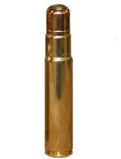 photo 577 tyrannosaur